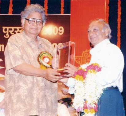 Ujjal Singha receiving Sahitya Akademy